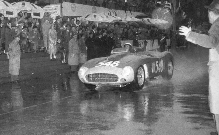 Entry #548 and WINNER at Mille Miglia in Italia on 28–29 Aprile 1956 was Eugenio Castellotti in the 1956 Ferrari 290 MM s/n 0616